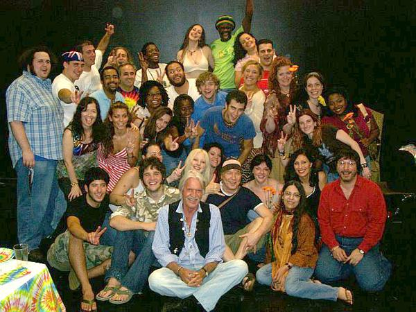 Michael Butler (front, in vest) and James Rado (behind Butler in black t-shirt and cap) and the cast of a production of "Hair" in Red Bank, New Jersey, Sept. 2006.